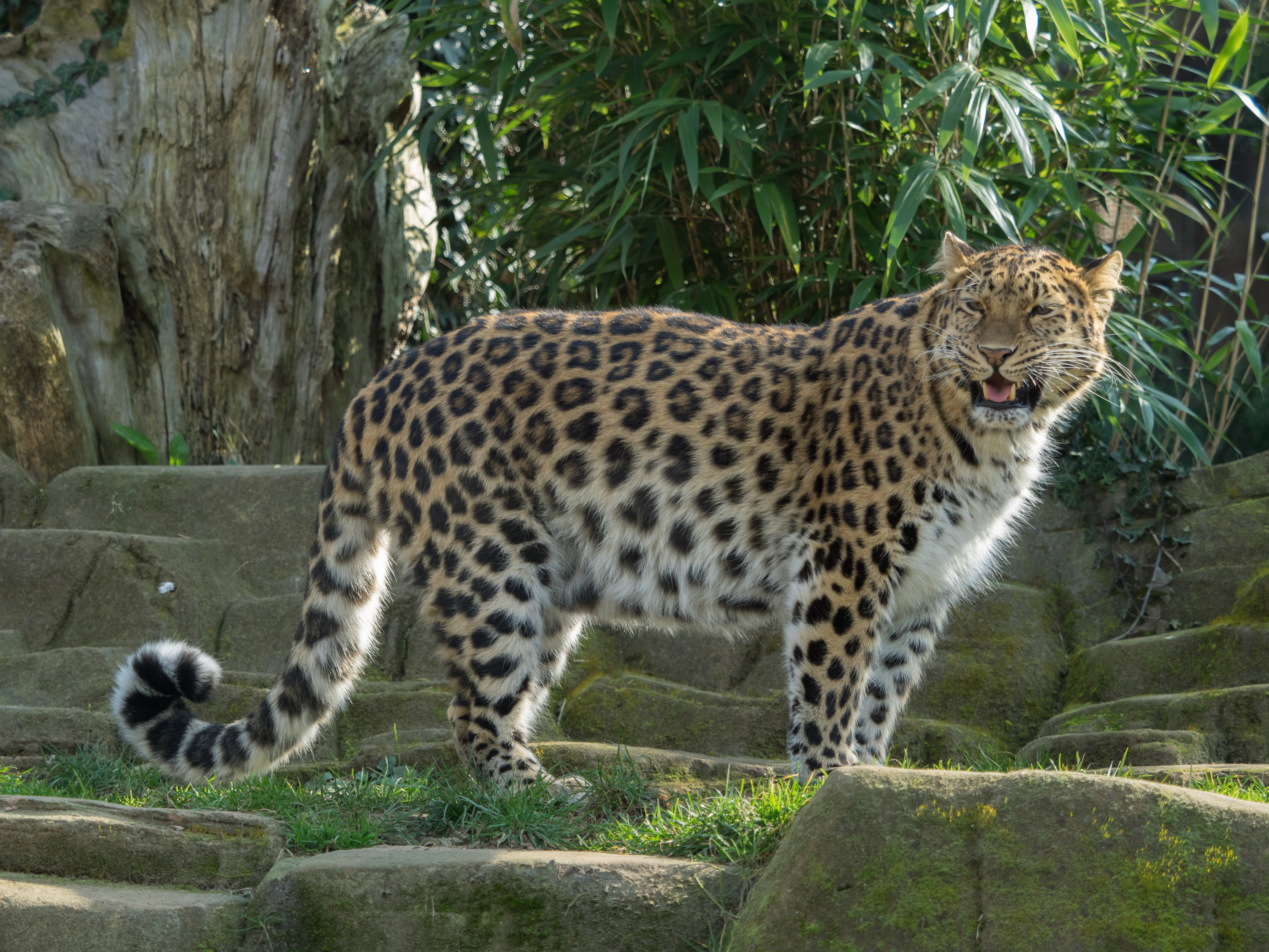 Amur leopard (Panthera pardus orientalis) at Colchester Zoo